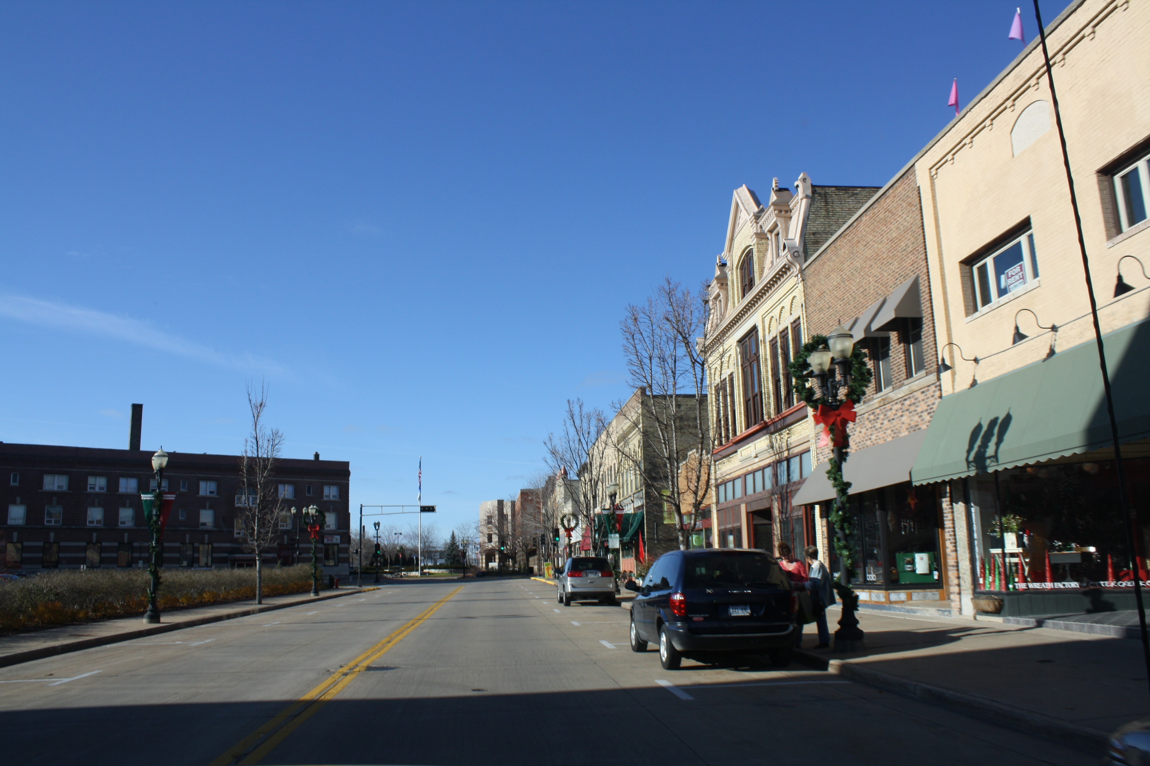 Looking west at downtown Menasha, Wisconsin. It is listed on the National Register of Historic Places as the Upper Main Street Historic District.